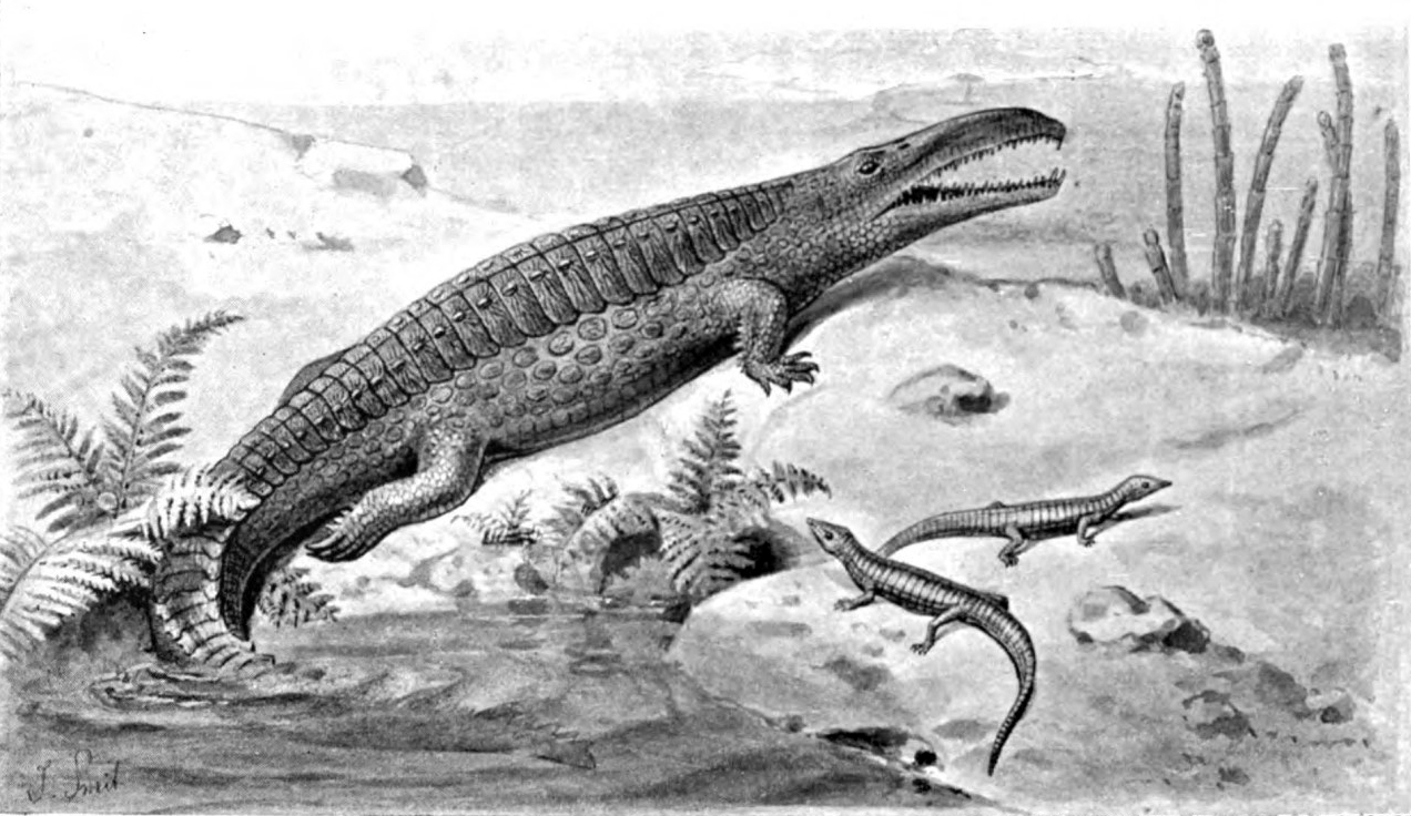 "Belodon" and Aetosaurus from Creatures of Other Days, 1894. England. The skull is based on Nicrosaurus kapffi, and the carapace on Paratypothorax andressorum.[1]